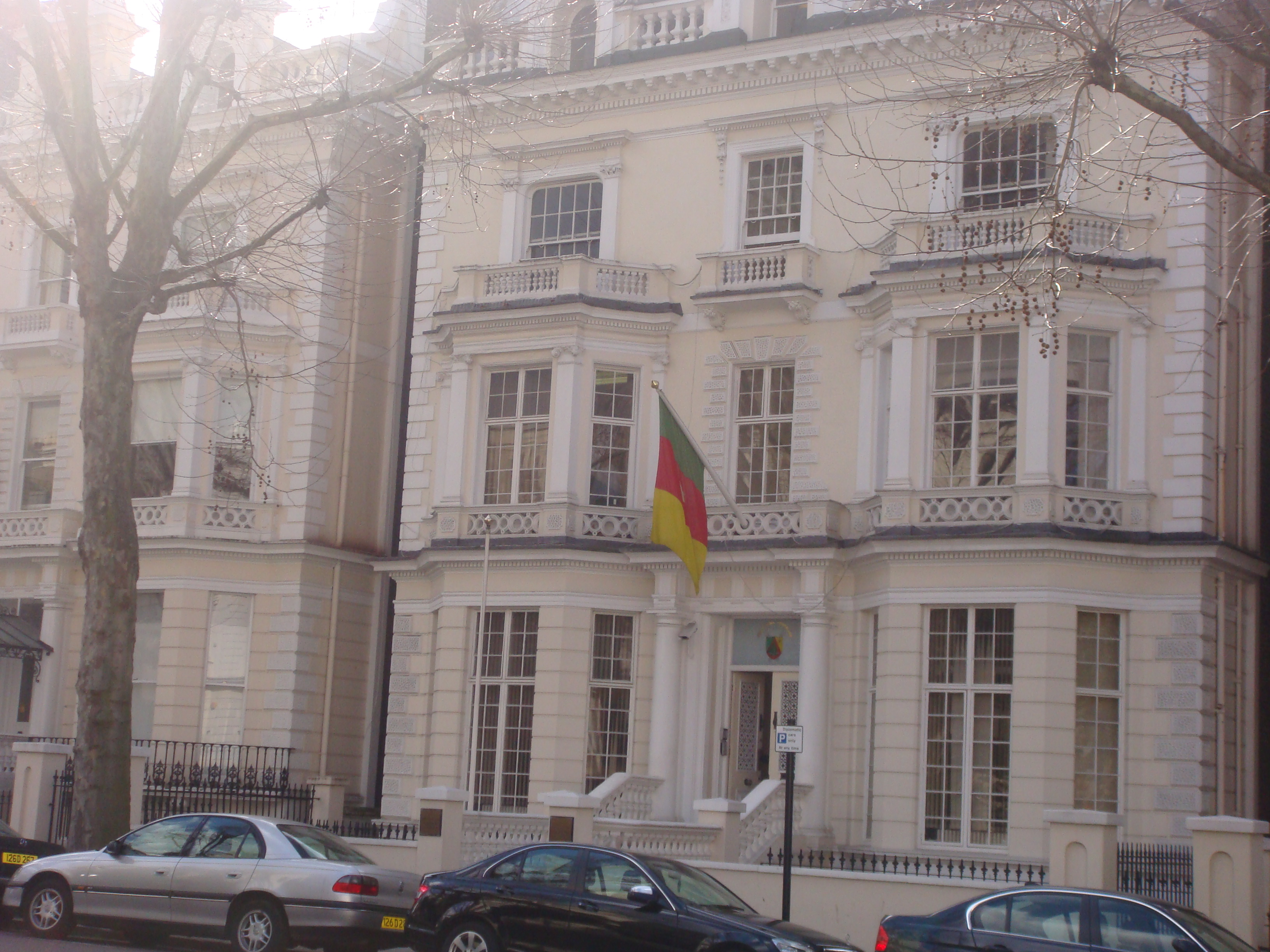 The Flag of Cameroon outside the embassy of the African country near Holland Park, London.